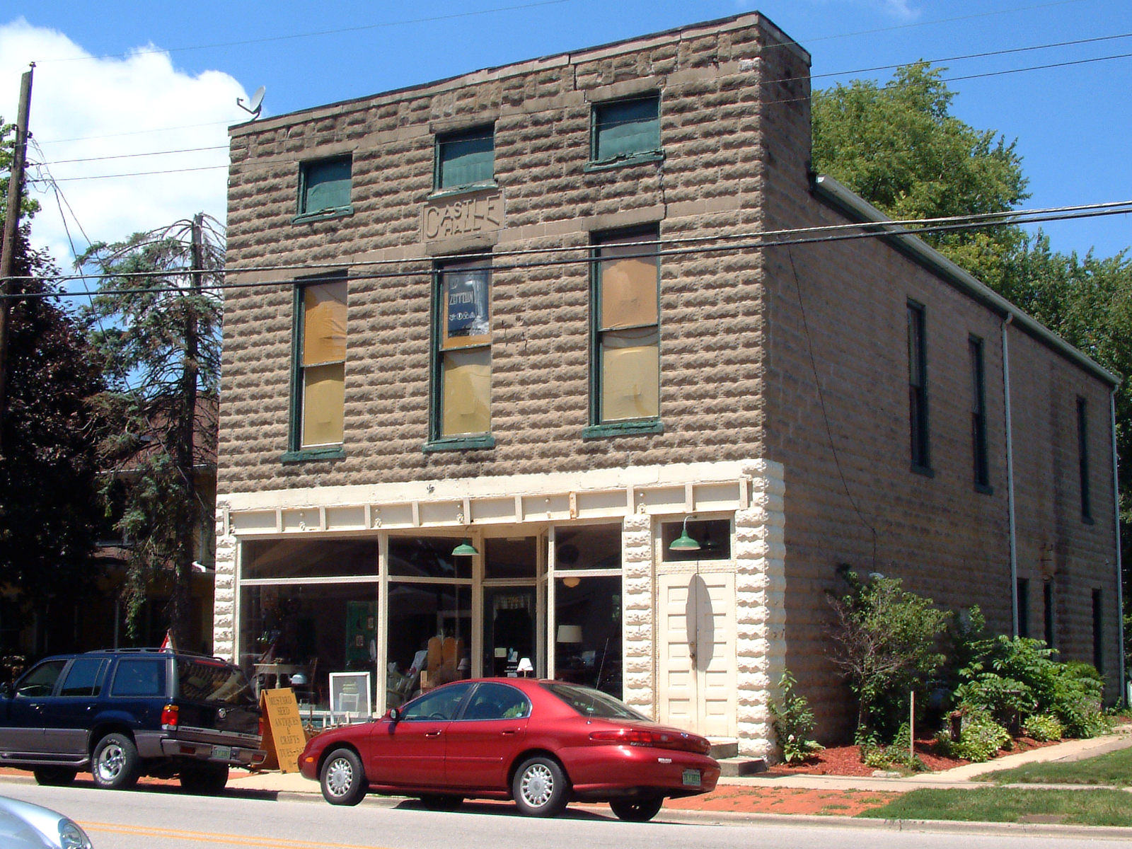 The Castle Hall building in the town of Dayton, Indiana, located at 736 Walnut Street between Market and Conjunction and occupied by Mustard Seed Antiques and Crafts. Photo looks northwest.